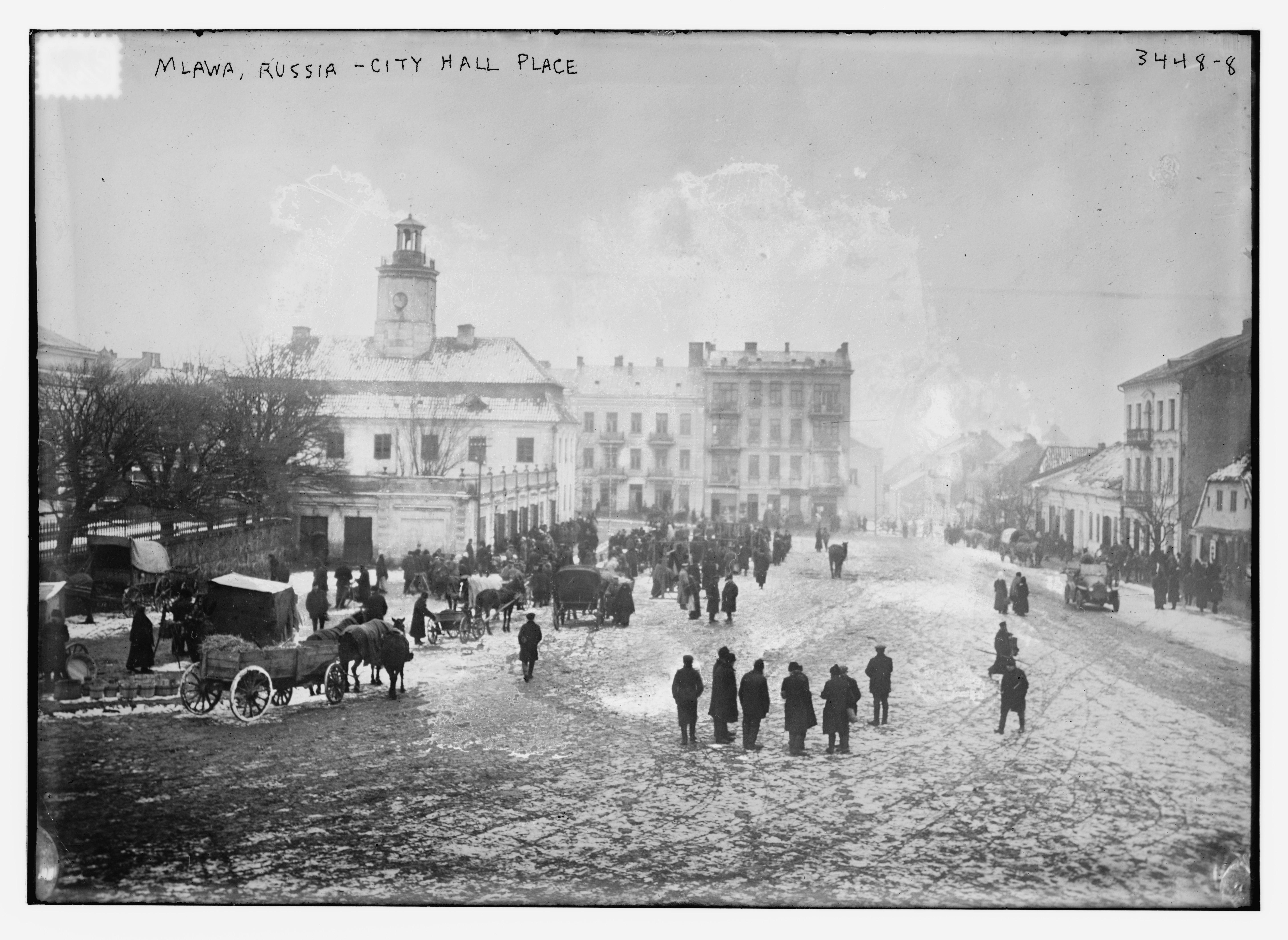 Title: Mlawa, Russia - City Hall Place Abstract/medium: 1 negative : glass ; 5 x 7 in. or smaller.